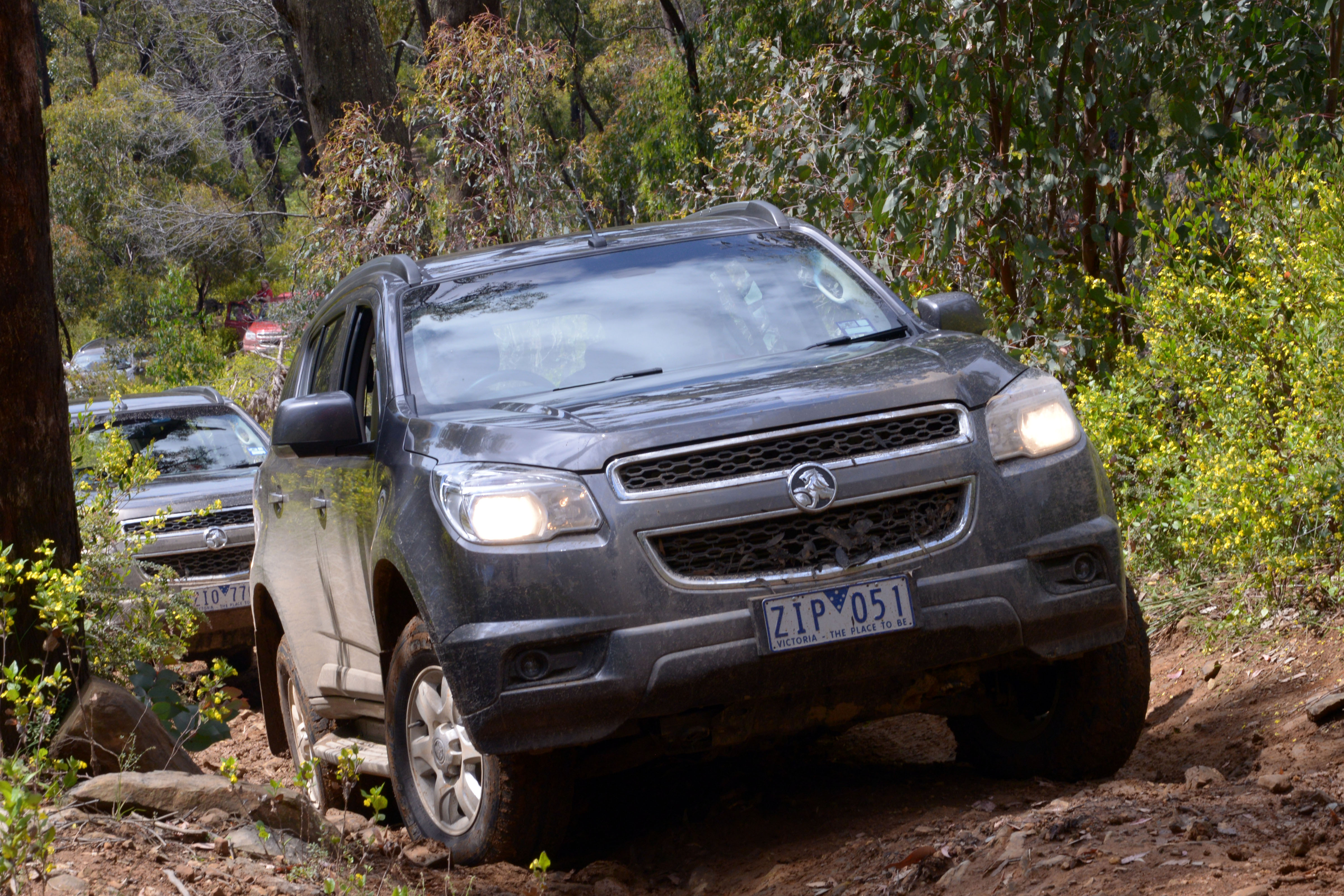 Holden Colorado 7